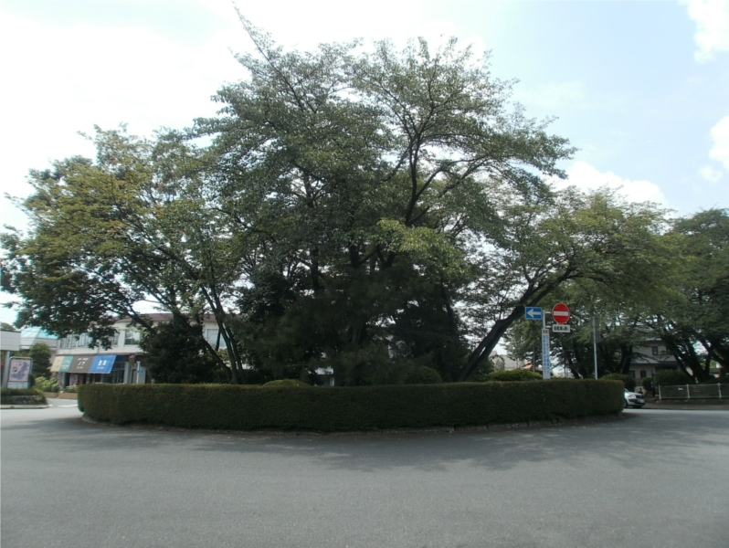 Traffic circle in SakuraOka ,Tama City, Japan